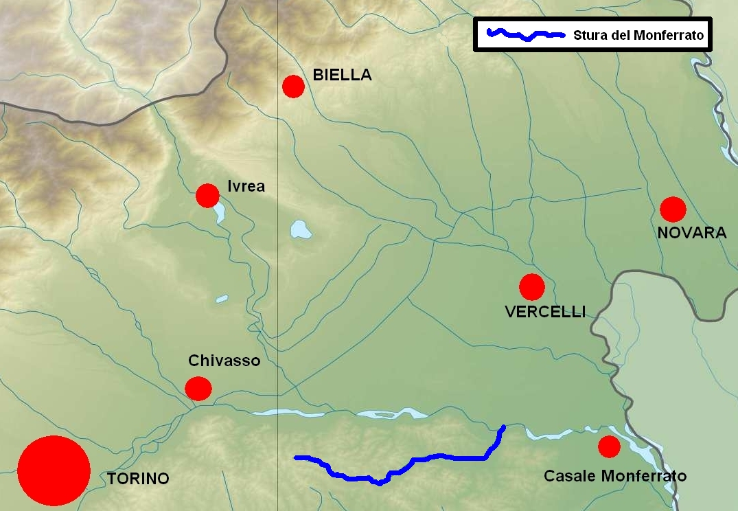 location within central Piedmont (Italy)